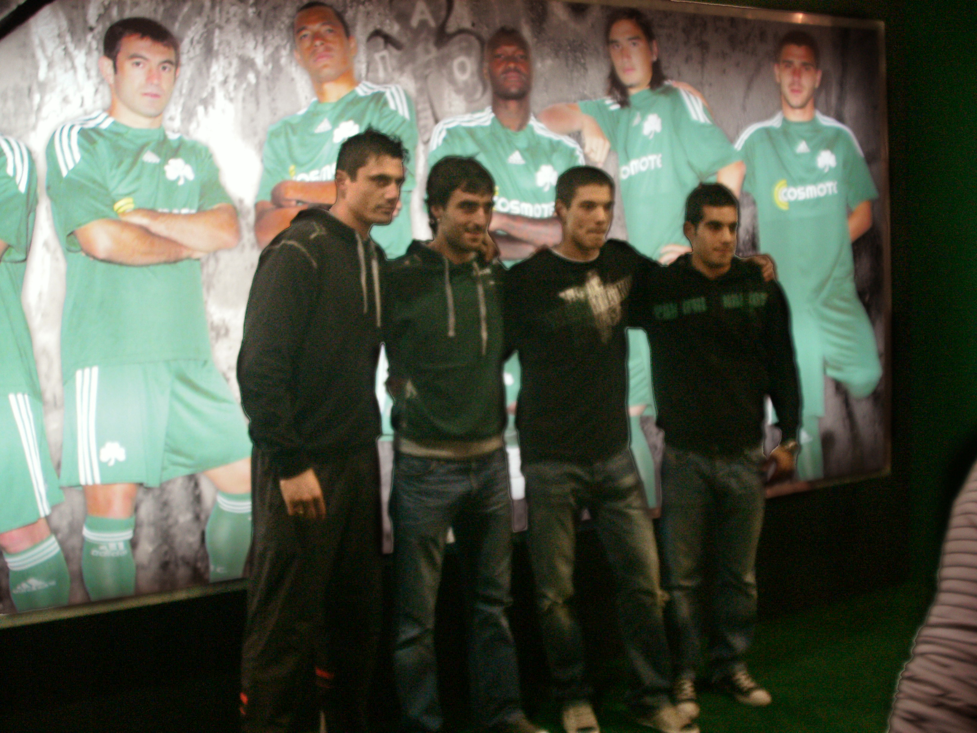 Galinovic, Sariegi, Rukavina, Siontis. Panathinaikos department Sports Show 2009.